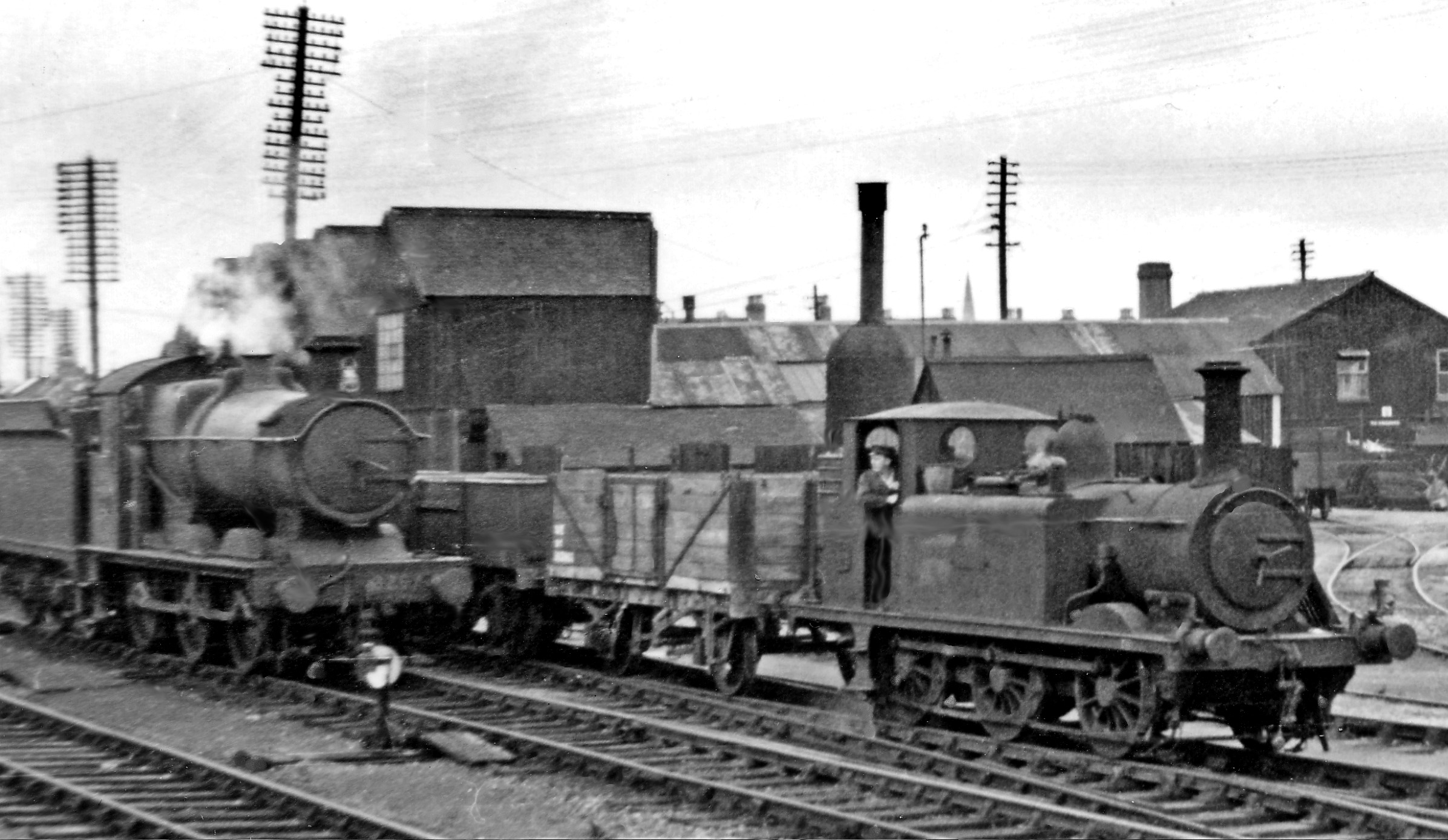 A very curious locomotive shunting at Taunton. View westwards, towards Taunton station, Exeter etc.: ex-GWR London, Bristol, Taunton and Southwest main line. Taken on impulse from a passing train – hence the poor quality, the scene shows an ex-GW 0-6-0T with an unusual history. This is No. 5 Portishead, a London, Brighton and South Coast Railway Stroudley 0-6-0T built at Brighton in 1877 as A1 Class No. 43 Gipsy Hill, rebuilt to A1X in 1919, bought by the Weston, Clevedon and Portishead Light Railway in December 1925 as their No. 2 Portishead. The impecunious WC&P Railway was closed abruptly in May 40 and its stock bought by the GWR, which found only two (GWR Nos. 5 and 6) of its engines serviceable. They were first put to work on the Bristol Harbour lines but No. 6 lasted only until January 1948. No. 5 was then transferred to Taunton, and later to Newton Abbot, until January 1950 when it was stored at Swindon and until it was withdrawn in March 1954. On the left is one of Taunton's several GWR 2251 Class 0-6-0s, No. 2267 with an ex-ROD tender.